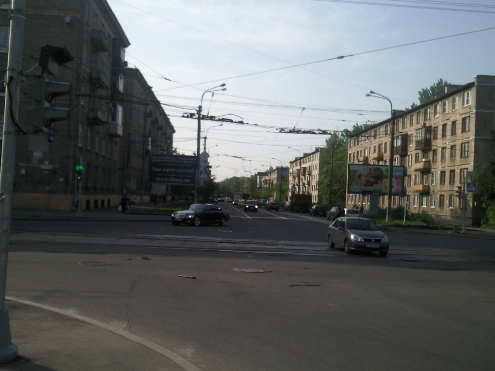 Novosibirskaya Street in Saint Petersburg (viewed from Torzhkovskaya Street)